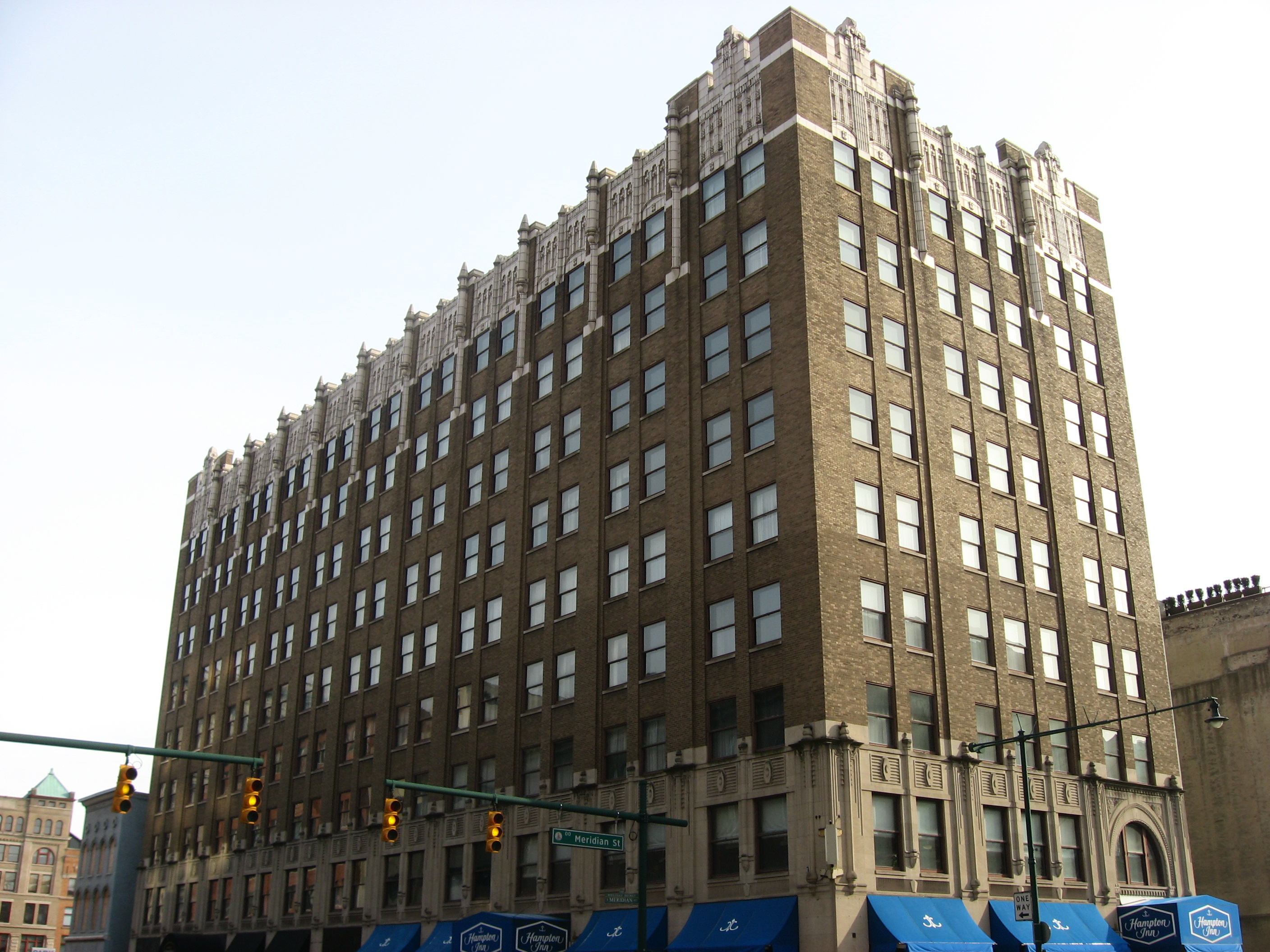 Hampton Inn in the Chesapeake Building on the southeastern corner of the junction of Meridian and Maryland Streets in downtown Indianapolis, Indiana, United States. It is a contributing property to the Indianapolis Union Station-Wholesale District, a historic district that is listed on the National Register of Historic Places.